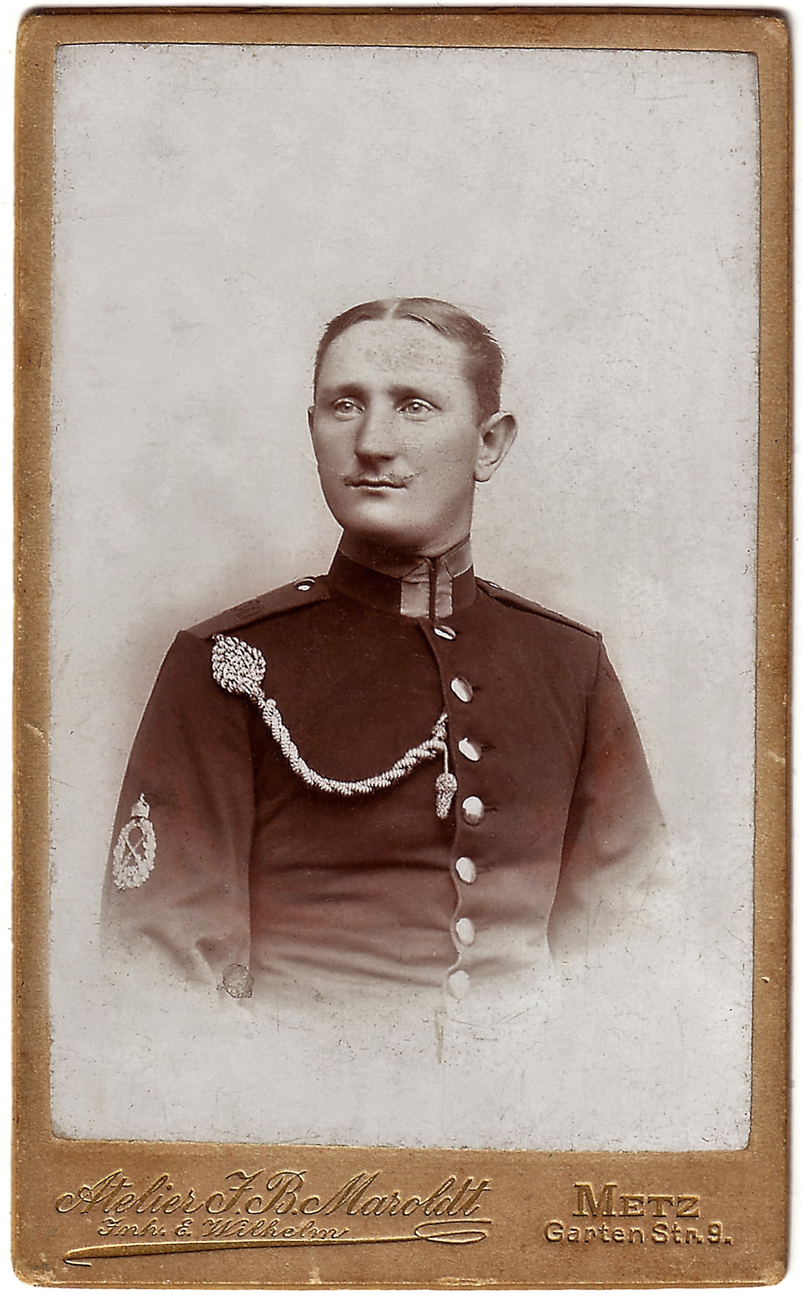 Corporal with shooting-lanyard from the prussian Infantry-Regiment Nr. 130 from Metz/Lorraine